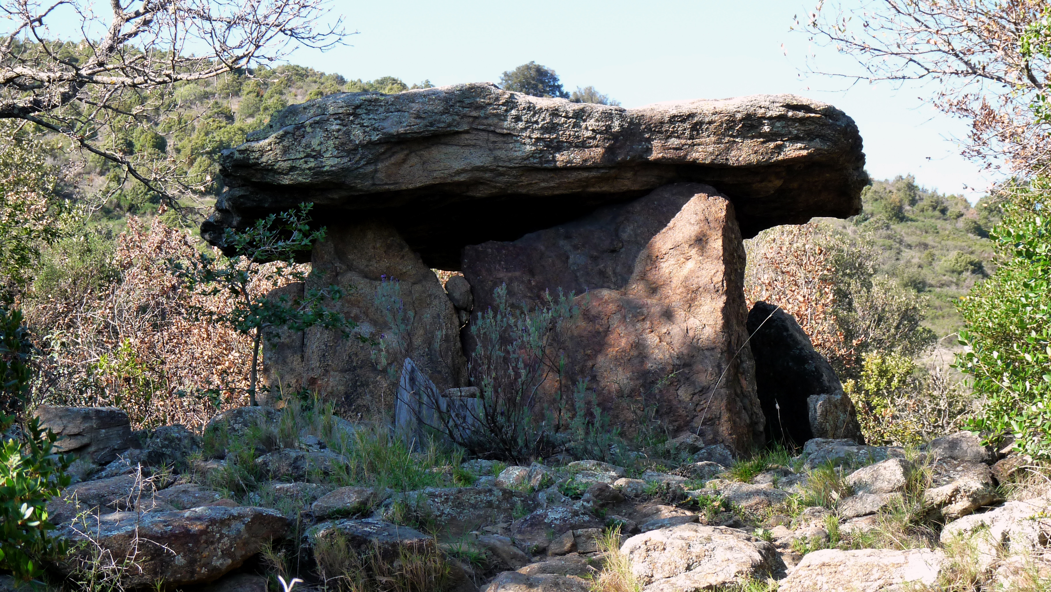 Dolmen de Peyralade or Caouno del Moro in catalan, 66730 Felluns (France)